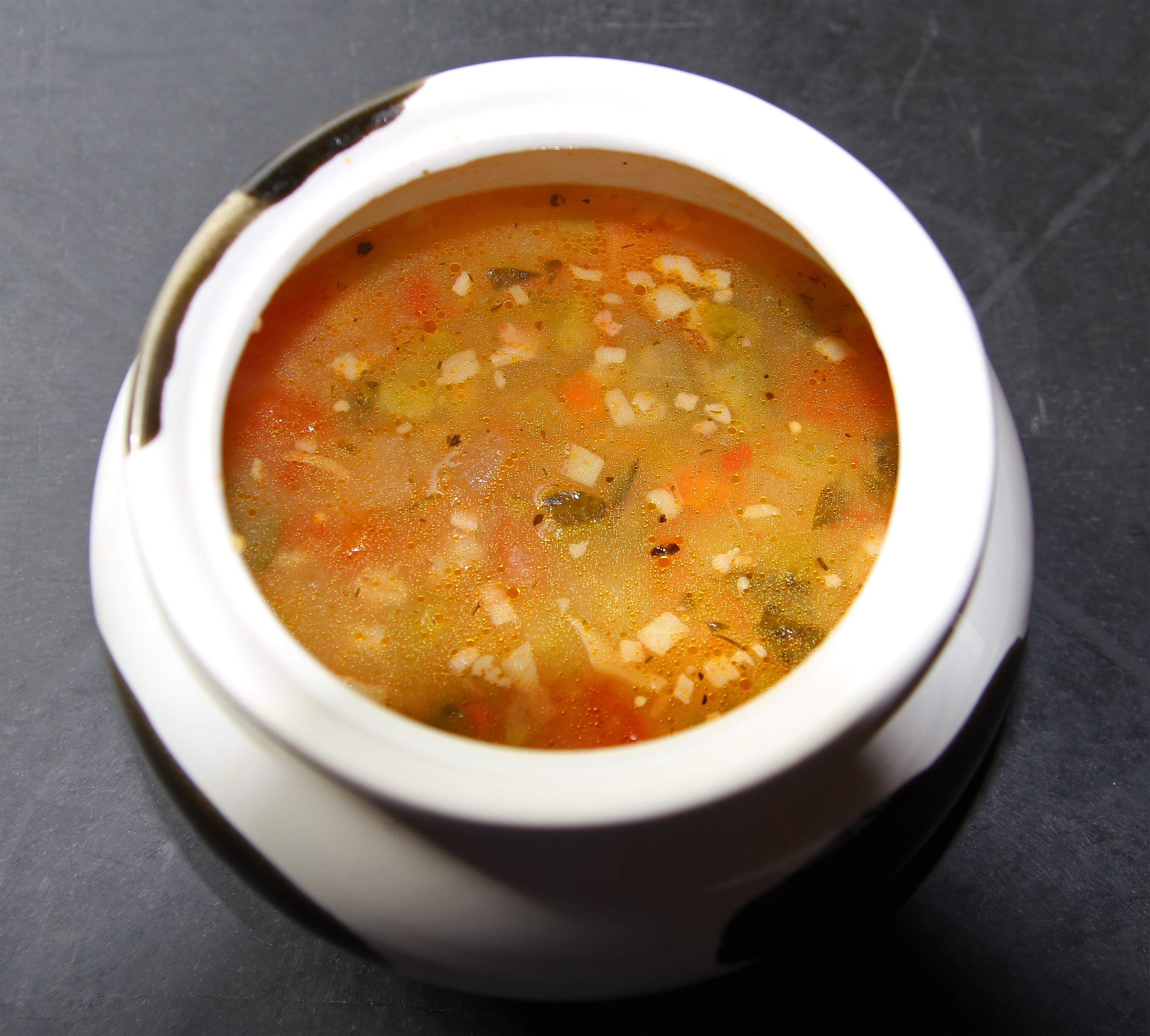 Rassolnik, a traditional Russian soup with pickled cucumbers